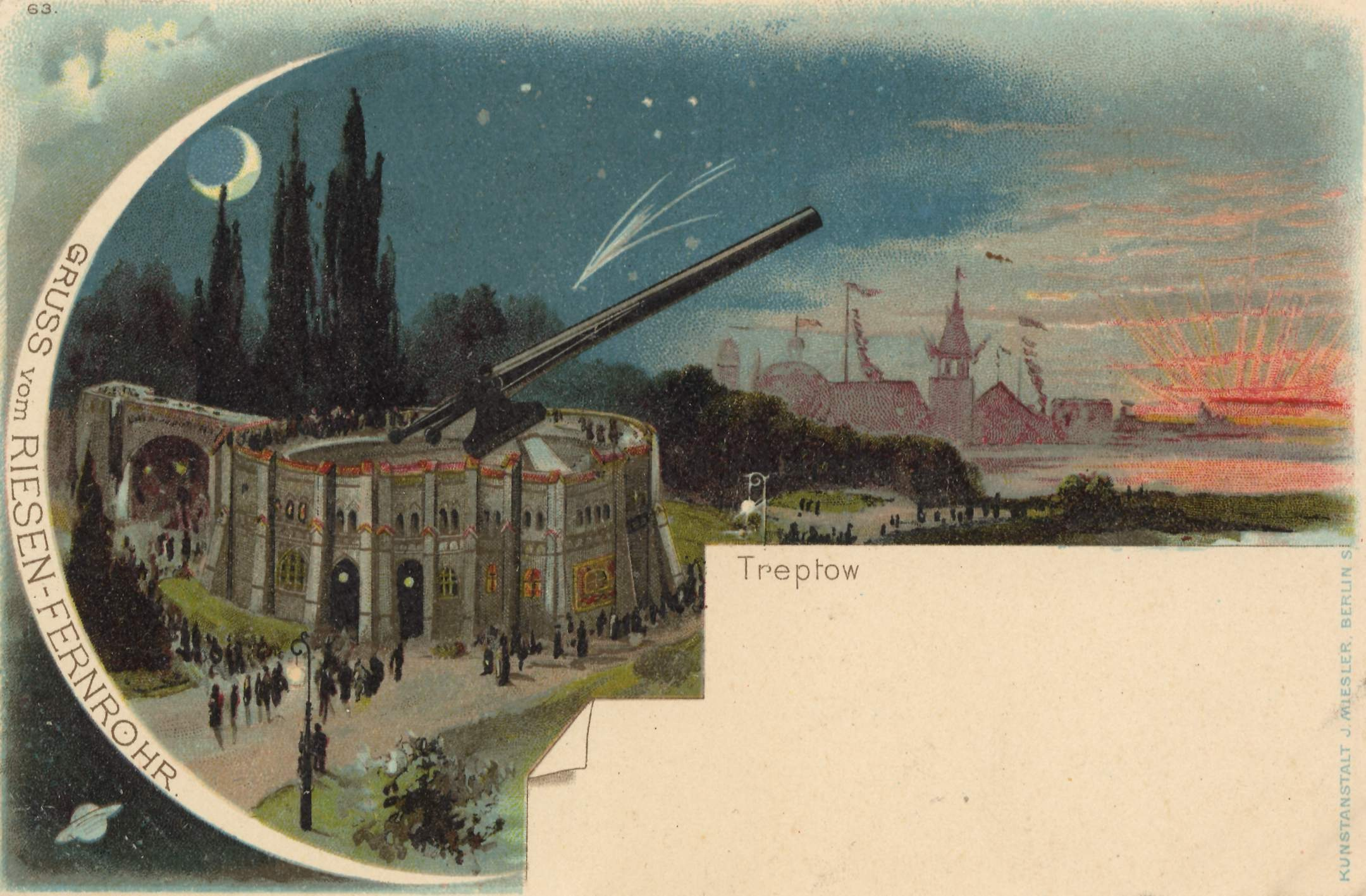 old picture postcard of Berlin industrial exhibition 1896 in Treptower Park - view of the giant long-glass. today it is part of the Archenhold-Sternwarte.